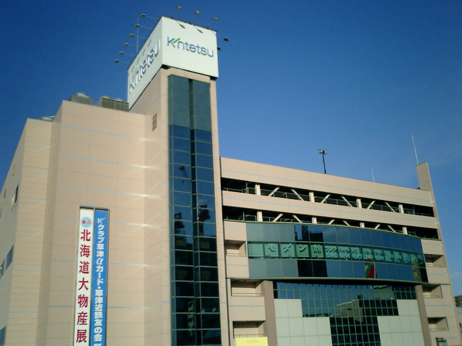 Kintesu Department Store Kusatsu.JPG,1-1-50 Shibukawa Kusatsu-City Shiga JAPAN.